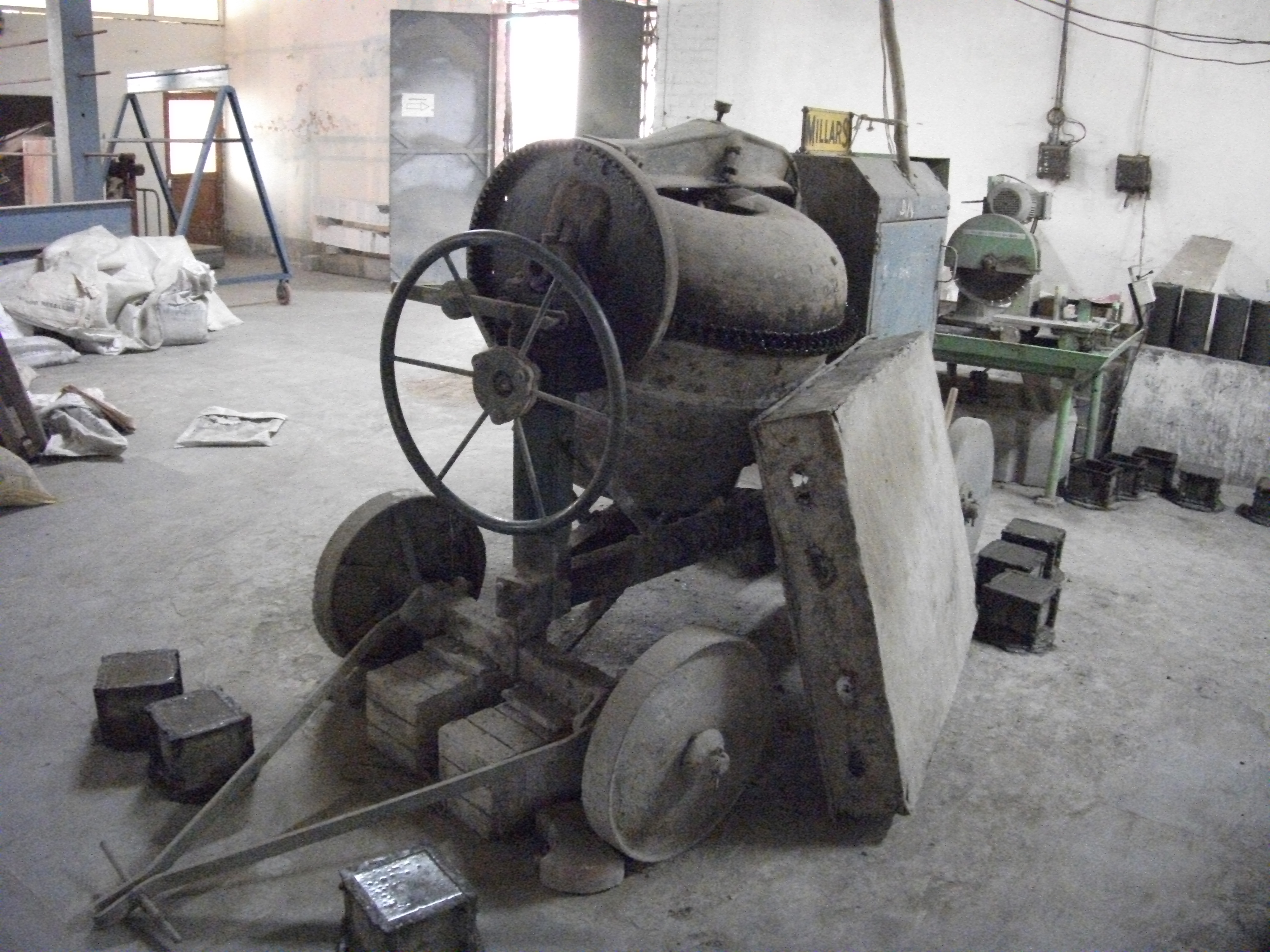 Concrete Mixer in concrete technology lab , LDCE